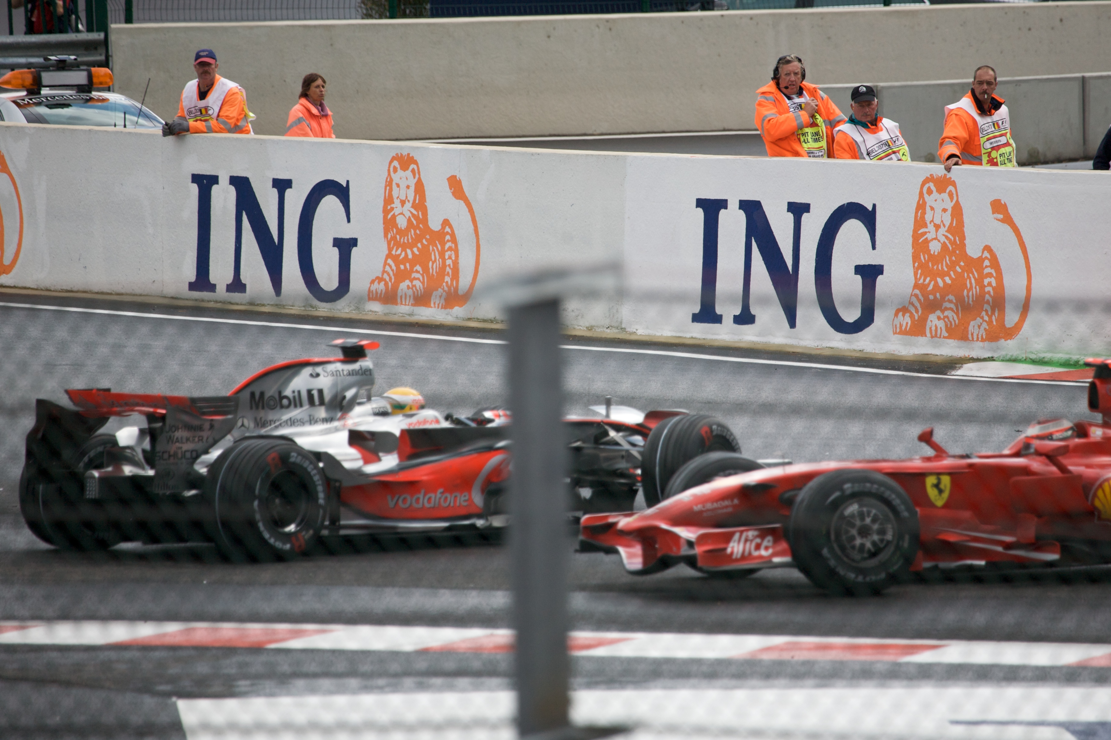 Lewis Hamilton (McLaren) spins on the second lap of the 2008 Belgian Grand Prix, allowing Kimi Räikkönen (Scuderia Ferrari) to pass him for the lead of the race.